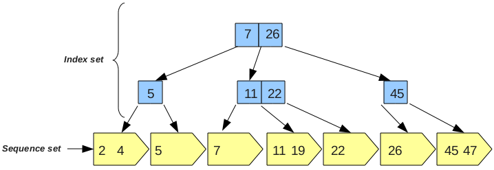 b+ tree organization